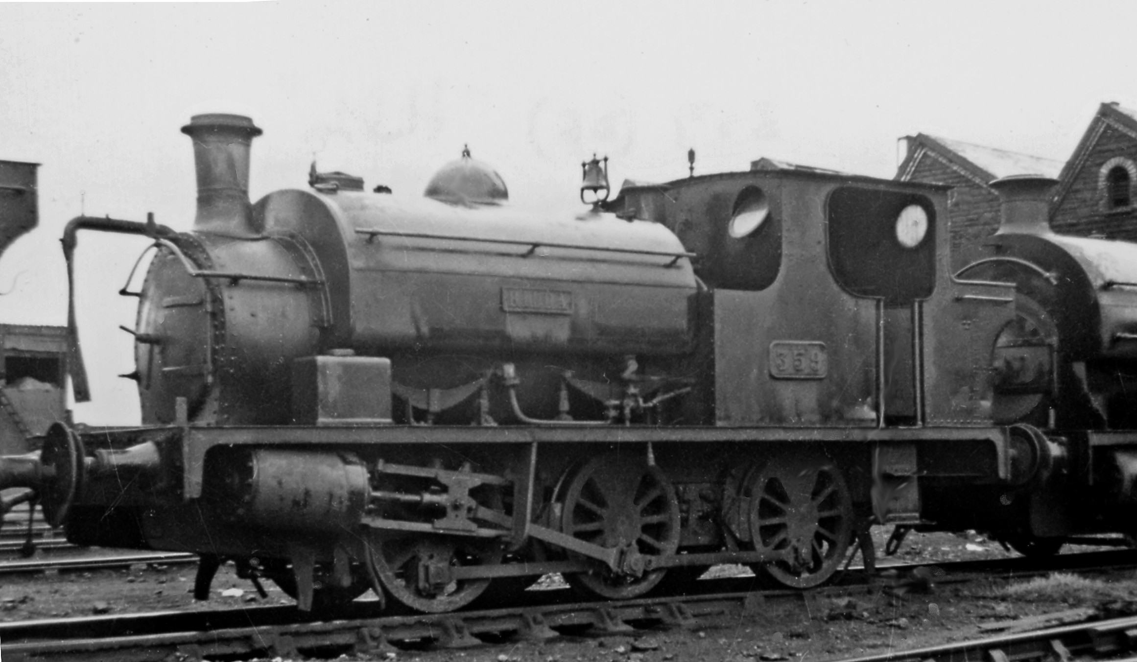 Ex-Llanelly & Mynydd Mawr 0-6-0T at Danygraig Locomotive Depot. Resting amongst a remarkably disparate collection at Danygraig of small locomotives acquired in 1922 by the GWR from minor South Wales Railways is 0-6-0 saddle-tank No. 359 'Hilda', one of eight assorted engines from the L&MMR; built by Hudswell, Clarke in 1917 it survived until 2/54.